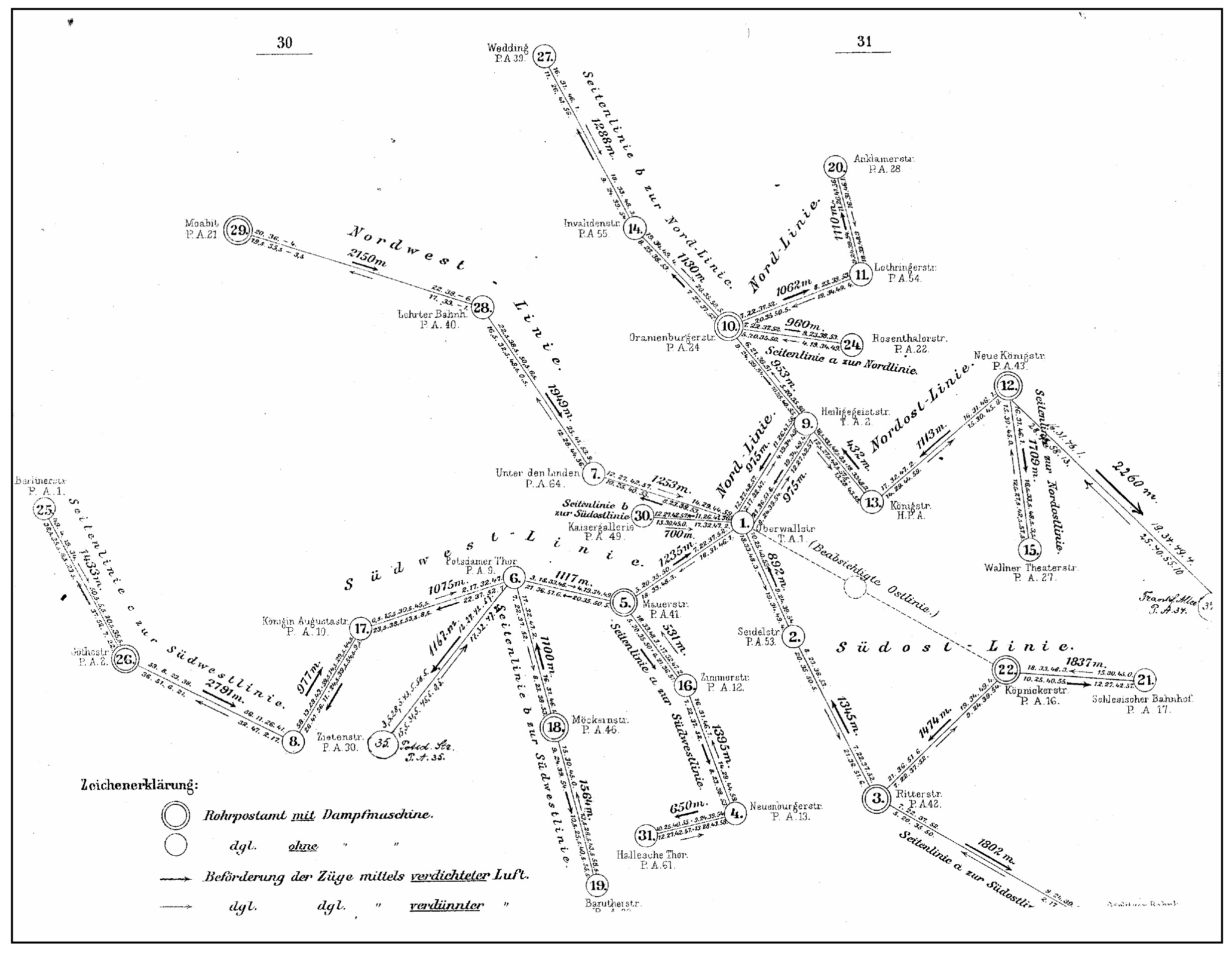 Berlin pneumatic post network according to the 1885, with pneumatic lines and postal stations